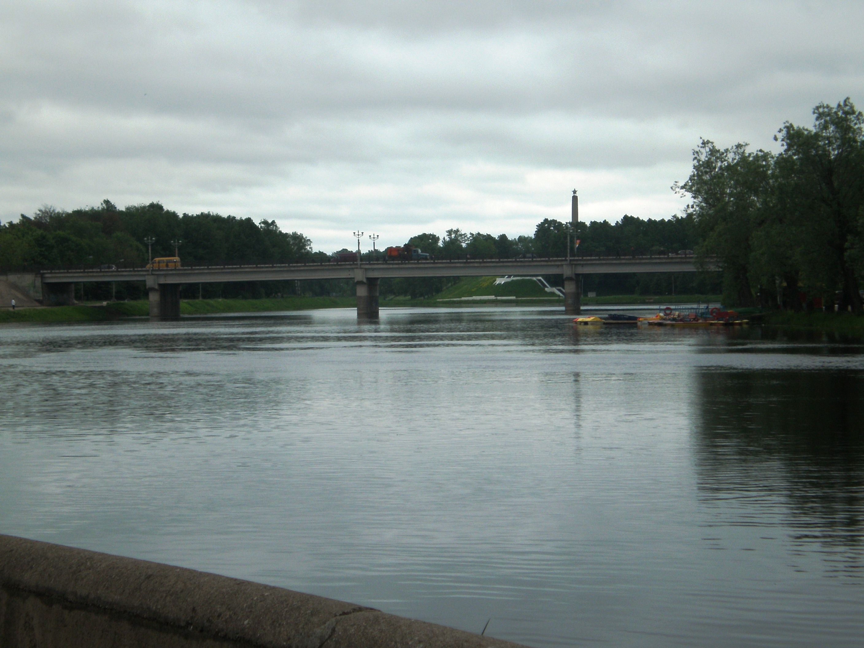 River Lovat' in Velikyje Luki, Pskov Oblast, Russia